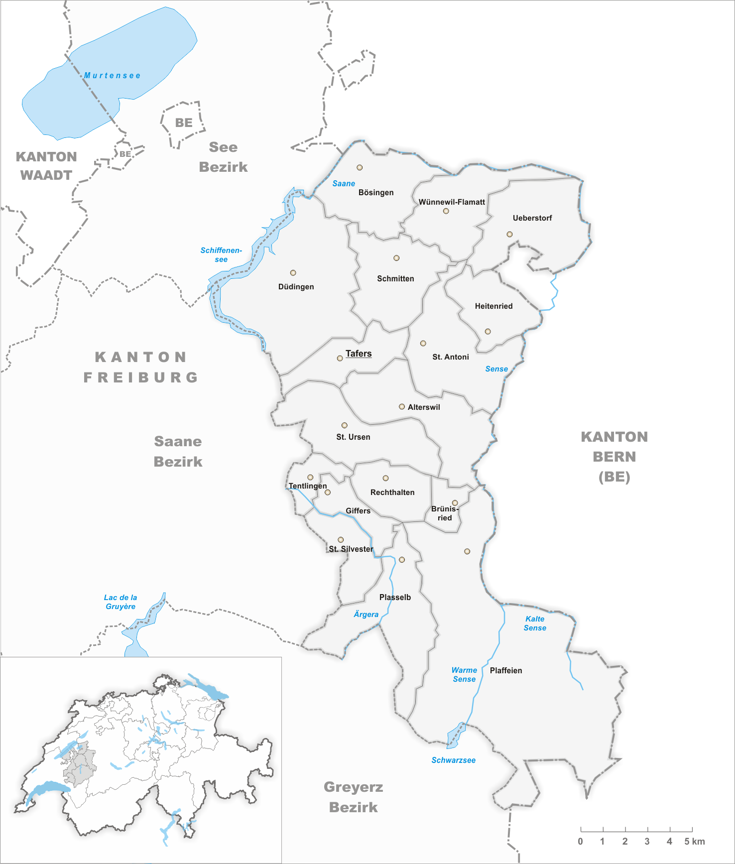 Municipality in the District of Sense Artist: Tschubby